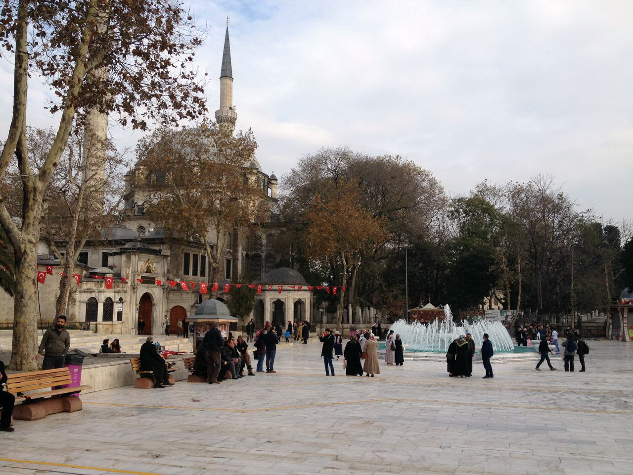 The Eyüp Sultan Mosque is situated in the Eyüp district of Istanbul, outside the city walls near the Golden Horn. The present building dates from the beginning of the 19th century. The mosque complex includes a mausoleum marking the spot where Eyüp (Job) al-Ansari, the standard-bearer and friend of the Islamic prophet Muhammad, is said to have been buried.